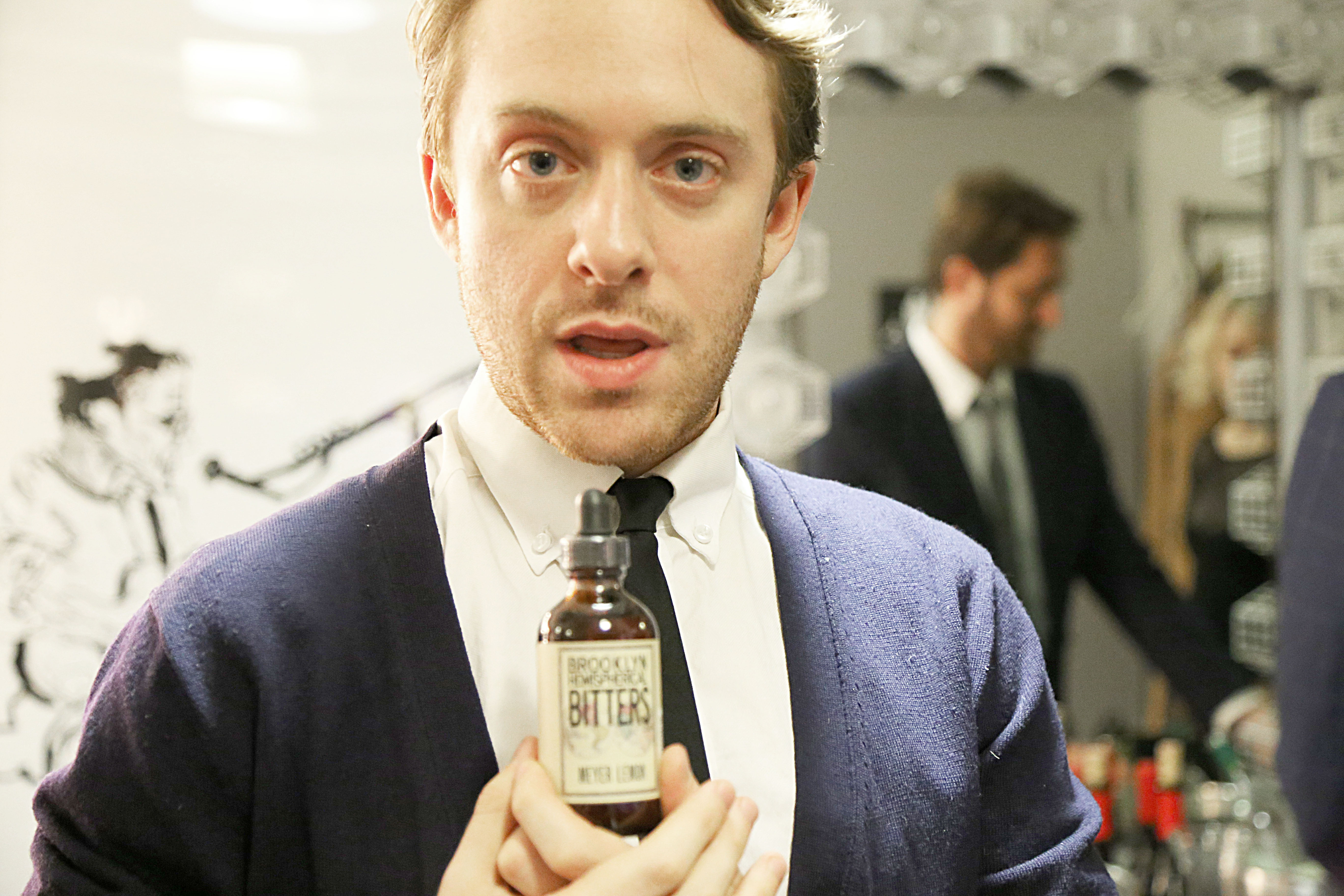 Max Jenkins on the It Gets Better Project Holiday Show 2014.